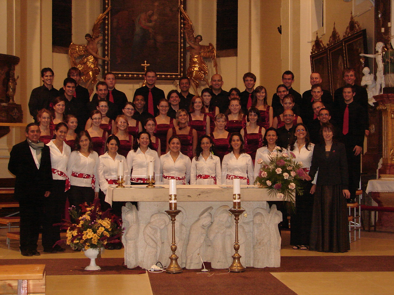 Concert in Prague by Ensamble Vocal de Medellín and Iuventus Svitavy choir